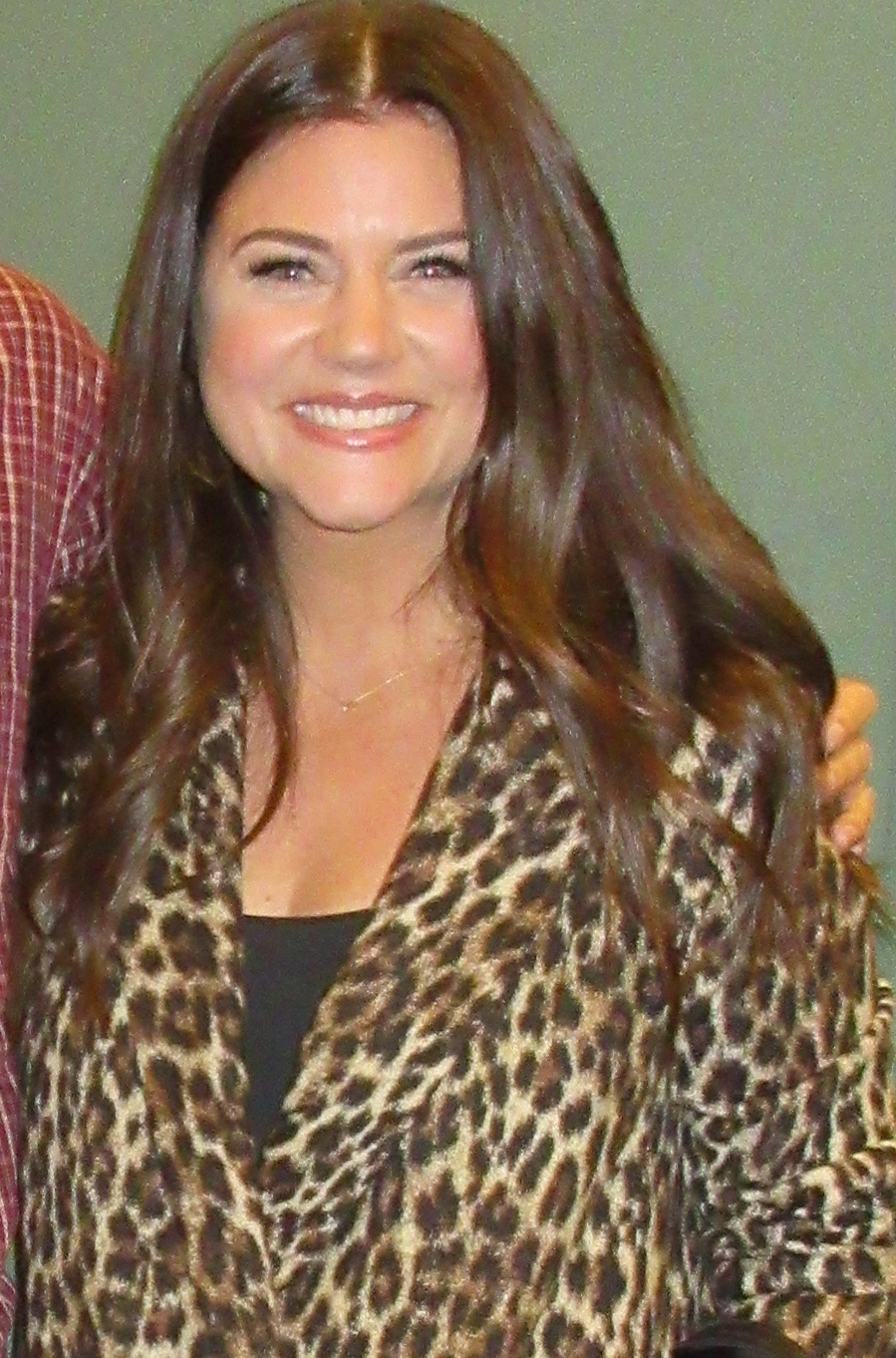 Tiffani Thiessen at book signing, New York City